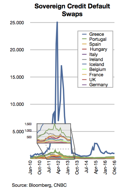 Monthly sovereign credit default swap prices (5Y quotes) of selected European countries since January 2010 (price at end of each month). The left axis is in basis points; a level of 1,000 means it costs $1 million to protect $10 million of debt for five years.Data: CNBC (no historical data) If you know of another source with historical CDS quotes, please add it here, thanx.Original data sources: Greece, Portugal, Ireland, Hungary, Italy, Spain, Belgium, France, Germany, and the UK (not available anymore)